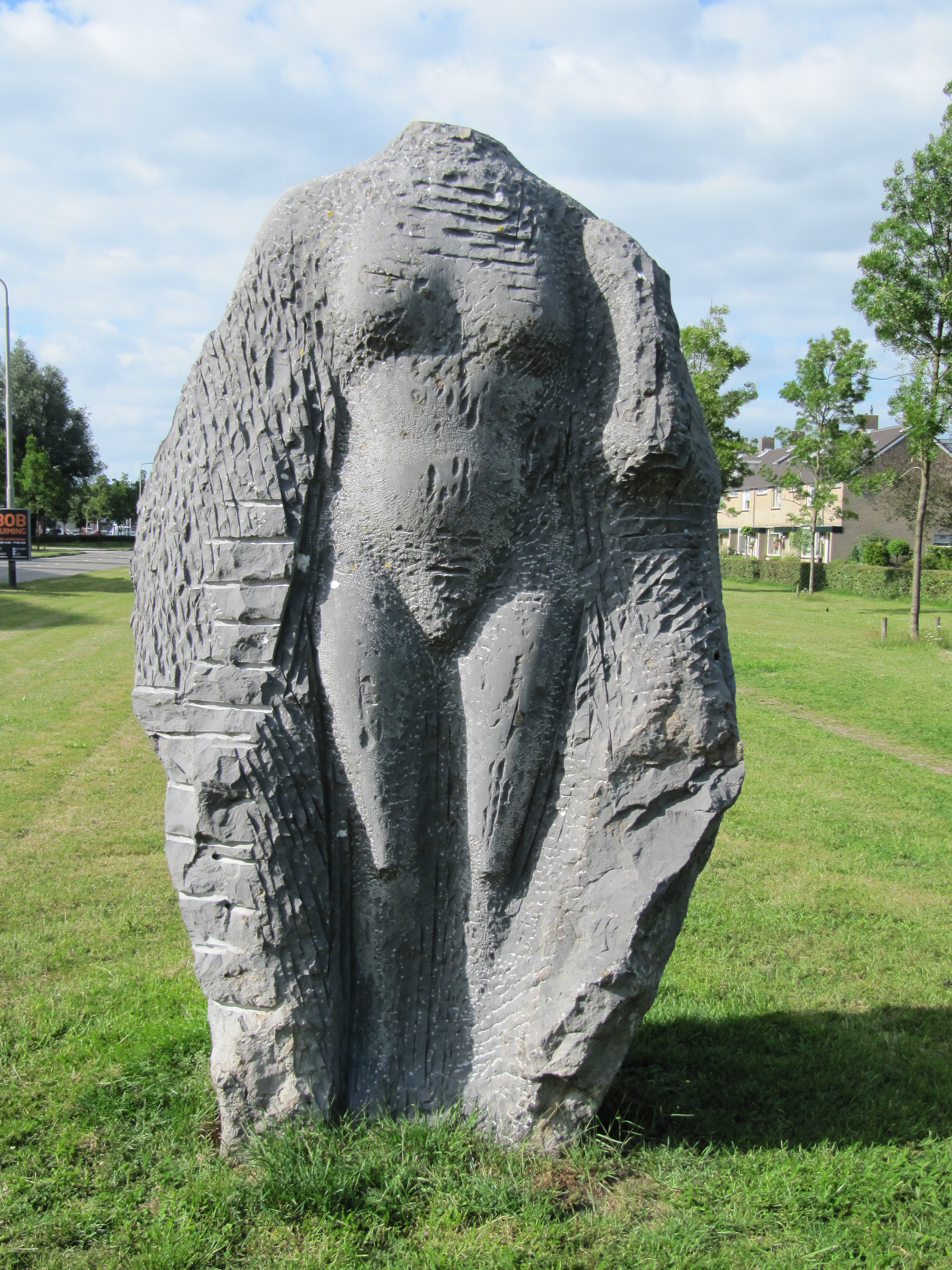 Sculpture "Noir de Deneé" by Tony van der Vorst in the park next to the Holkerweg in Amersfoort, The Netherlands